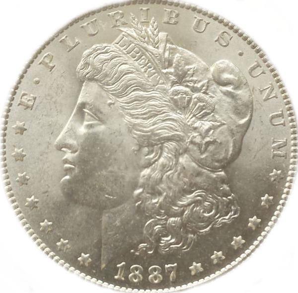 Obverse of a Morgan Silver Dollar